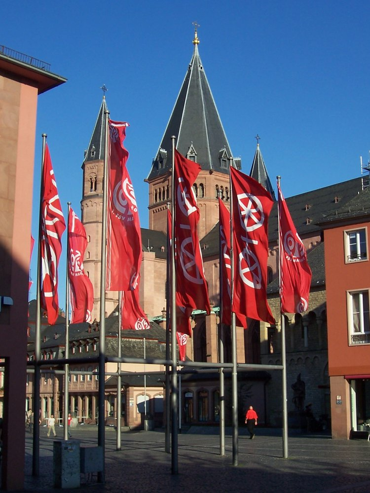 Mainz flags (City coat of arms - rad and FSV Mainz 05 logo) in front of Mainz cathedral (Dom)